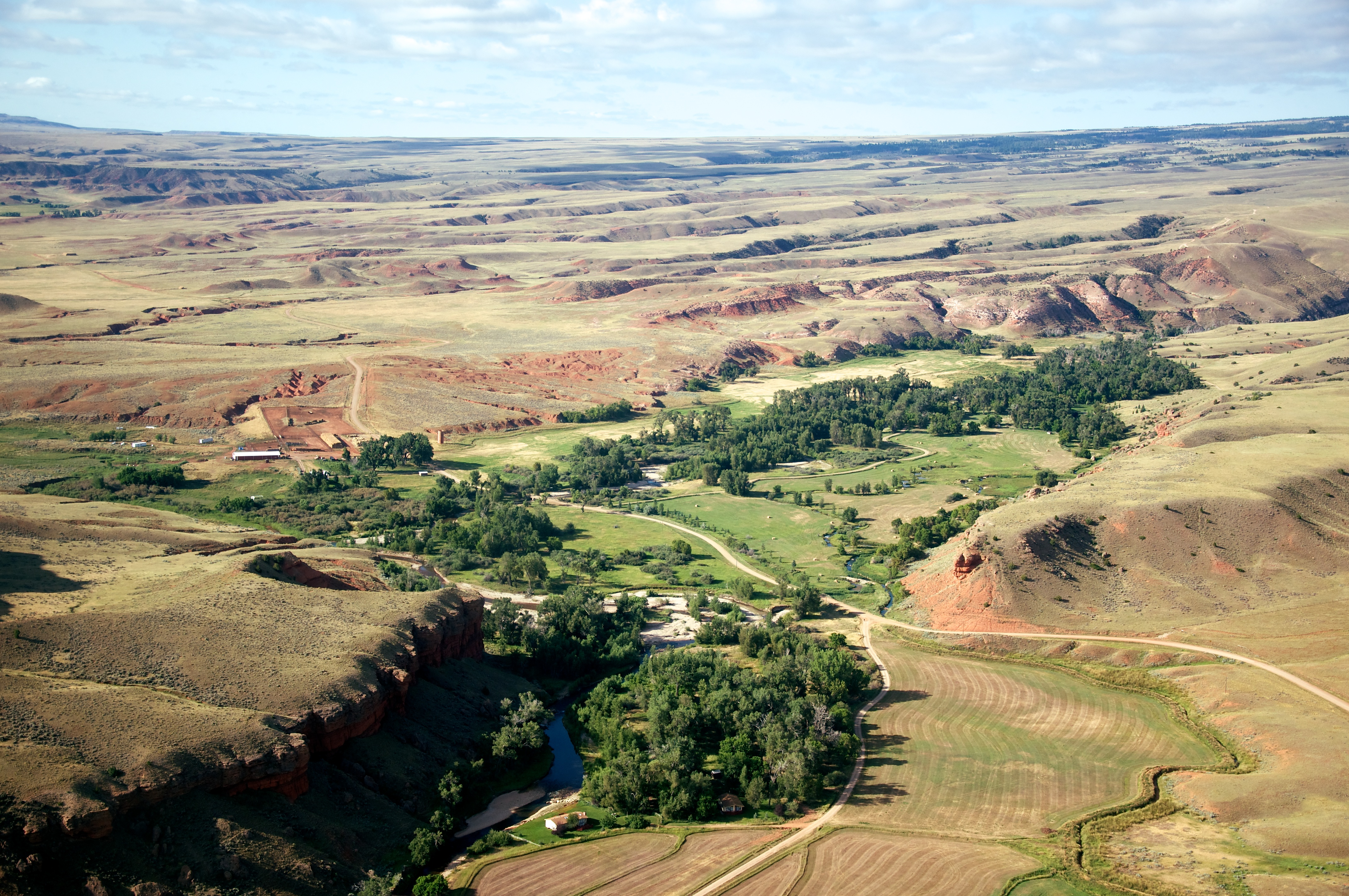 View SSW of the remote hideout called Hole-in-the-Wall, Wyoming, USA. The site was used in the late 19th century by the Hole in the Wall Gang and other outlaws including Butch Cassidy's Wild Bunch gang.